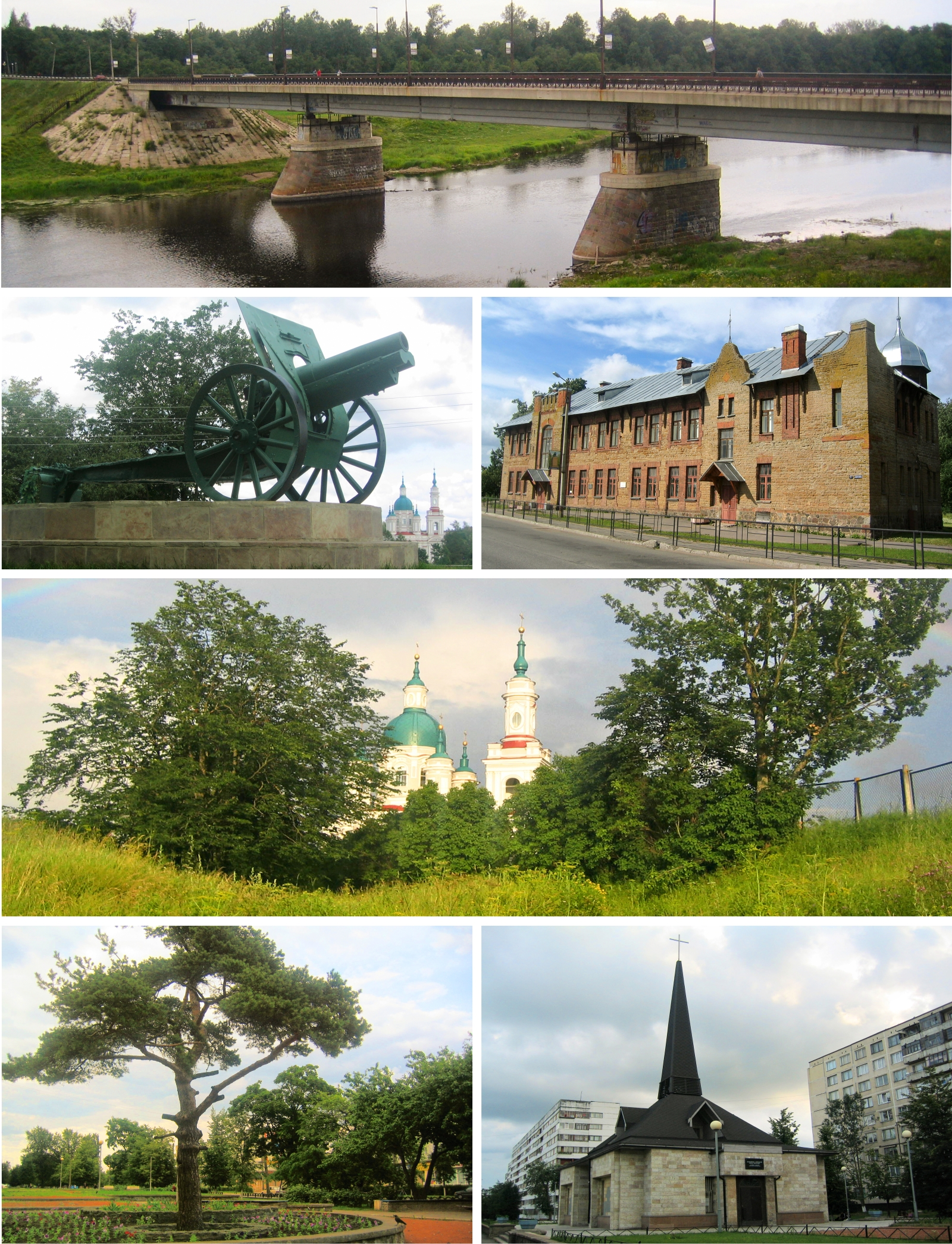 Фотографии Кингисеппа 0002